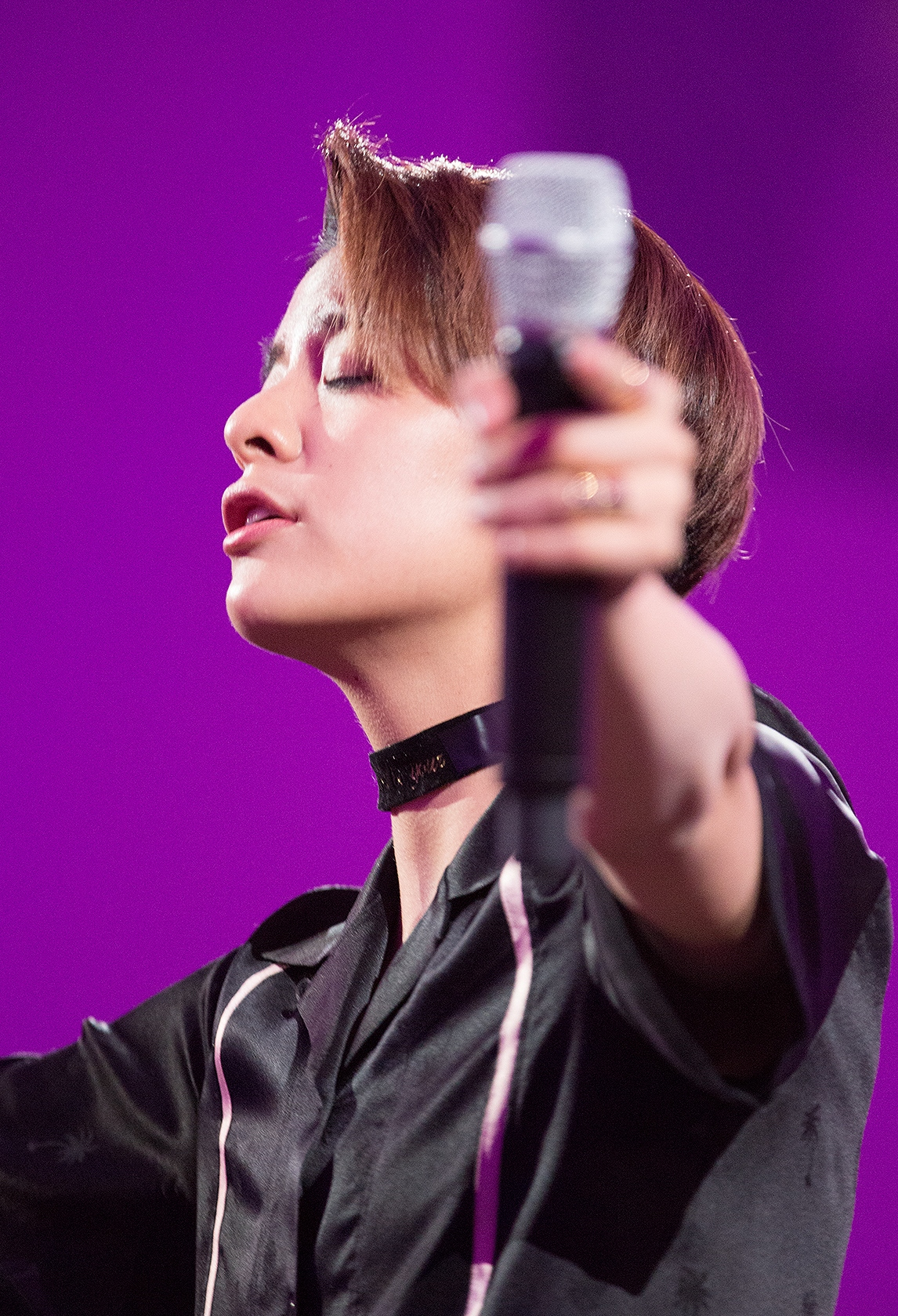 Amber Liu at Style Icon Asia on March 15, 2016.